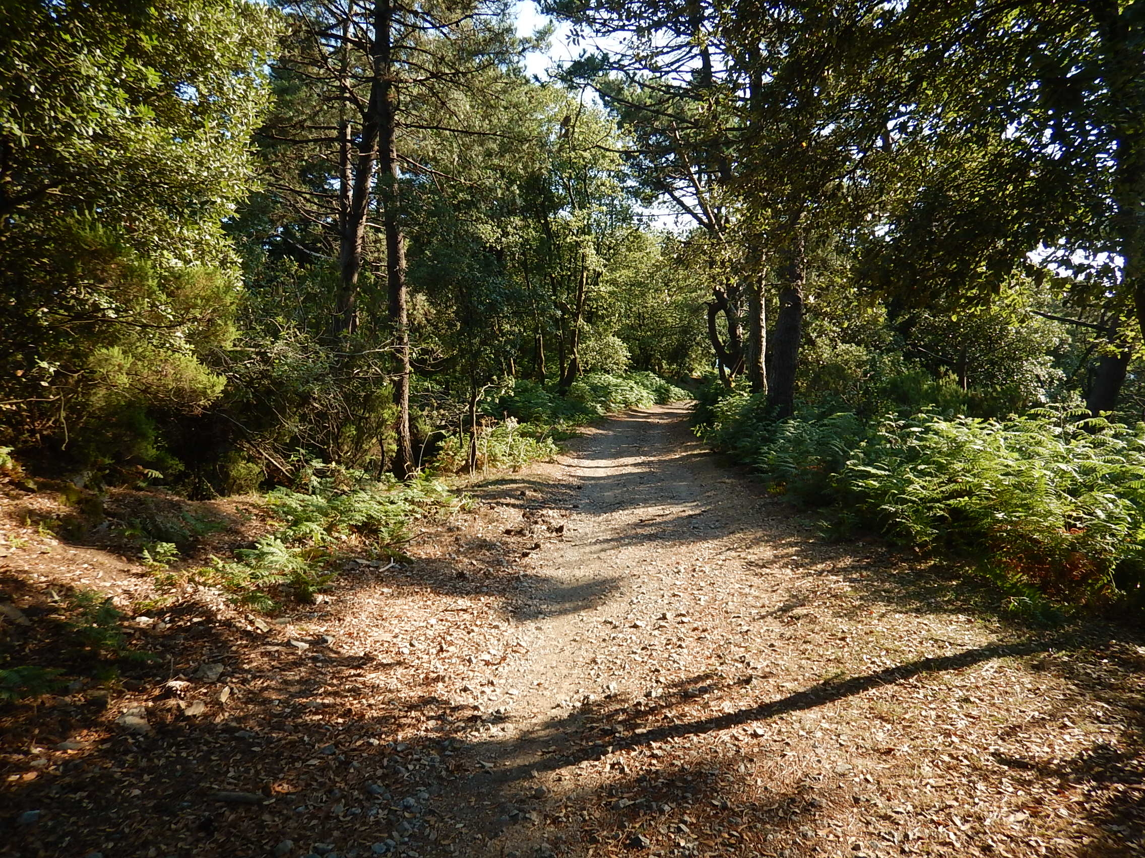 old stret the dorsale peloritana, sicily